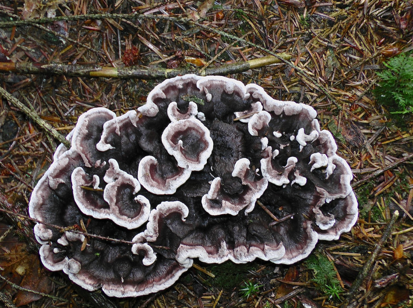 Fruit bodies of hte stipitate hydnoid fungus Phellodon melaleucus (Sw. ex Fr.) P. Karst. Specimen photographed in Forest near Wallisellen, Switzerland.